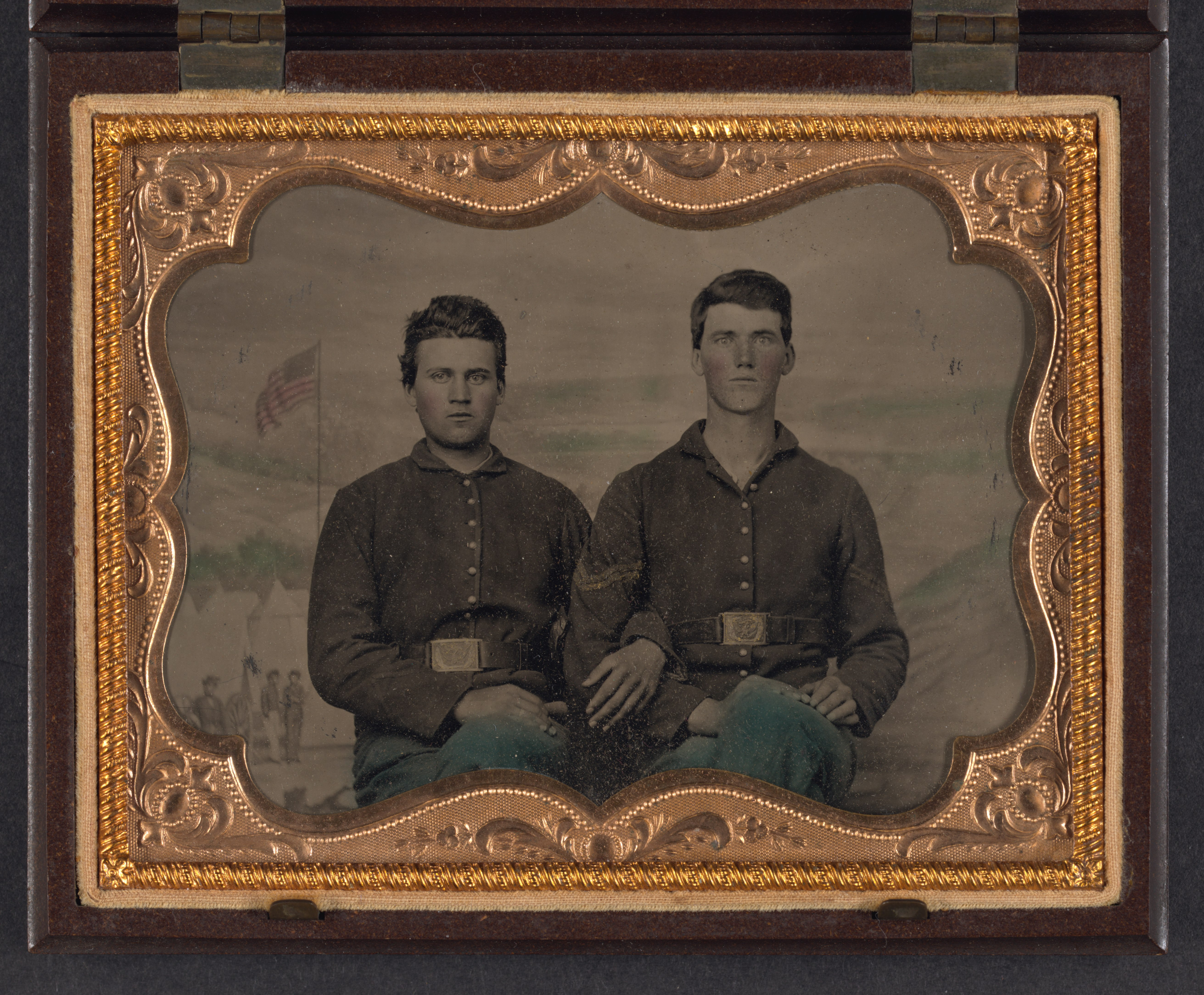 Title: Two unidentified soldiers in Union uniforms in front of painted backdrop showing military camp scene Abstract/medium: 1 photograph : quarter-plate tintype, hand-colored ; 12.5 x 10 cm (case)